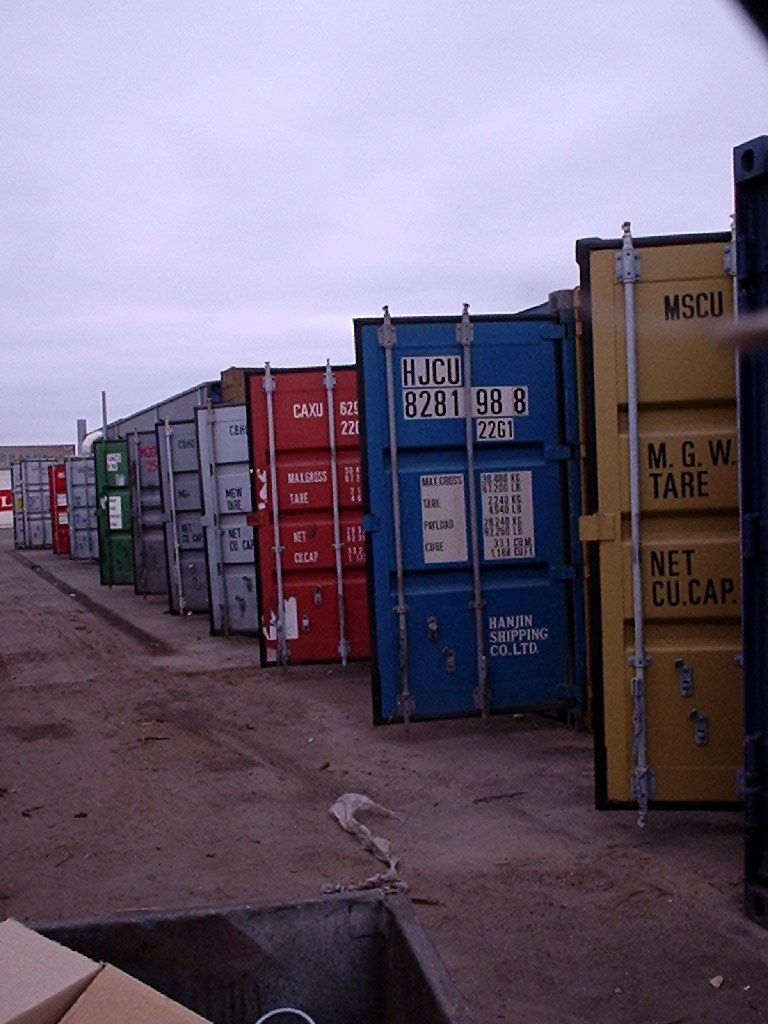 Example of ISO 6346 container numbering at the washing corner at Container Care in Copenhagen